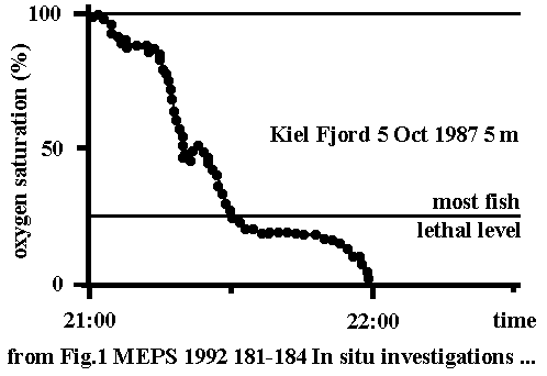 Oxygen depletion 1 graphic Uwe Kils